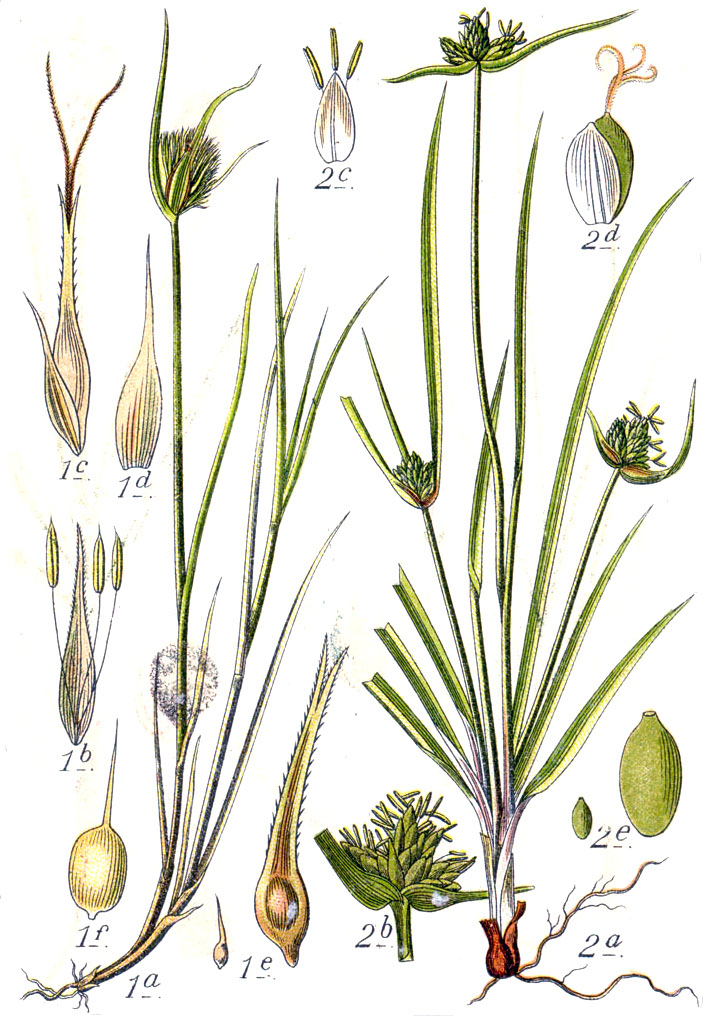 1. Carex bohemica Schreb., syn. Carex cyperoides L. 2. Carex baldensis L. Original Caption 1. Cyper-Segge, Carex cyperoides 2. Tyroler-Segge, C. baldensis